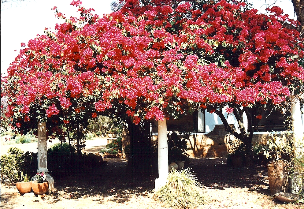 Bougainvillea glabra Shady bower of bougainvillae in suburban Bulawayo, Zimbabwe. I believe the white columns once supported the verandah which ran round three or four sides of the house. The verandah has now been largely glassed in to create more indoor rooms, as seen behind the bougainvillae. Taken in 1996 on film.